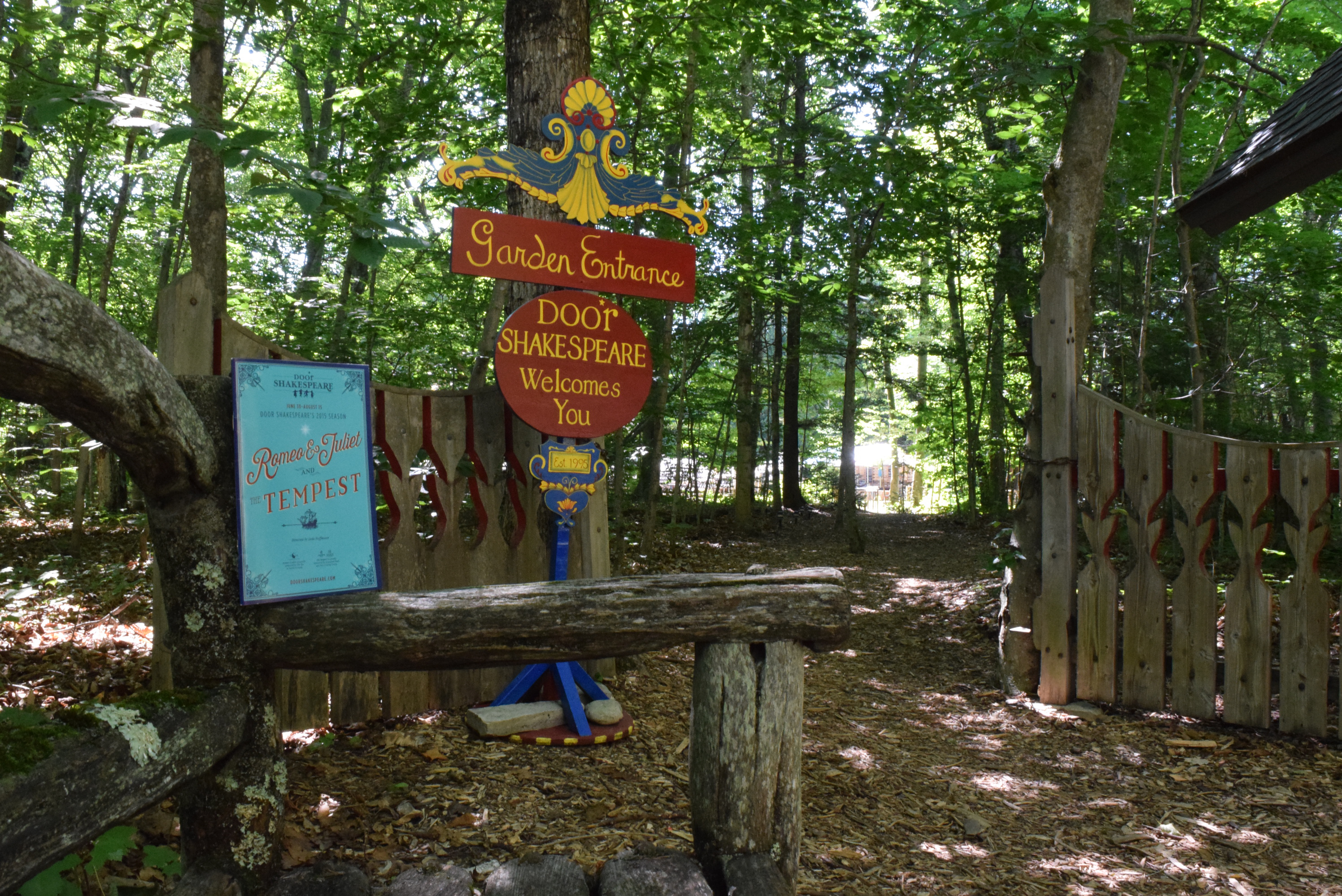 Door Shakespears - Theater in a beautiful outdoor setting each summer in Baileys Harbor Door County Wisconsin